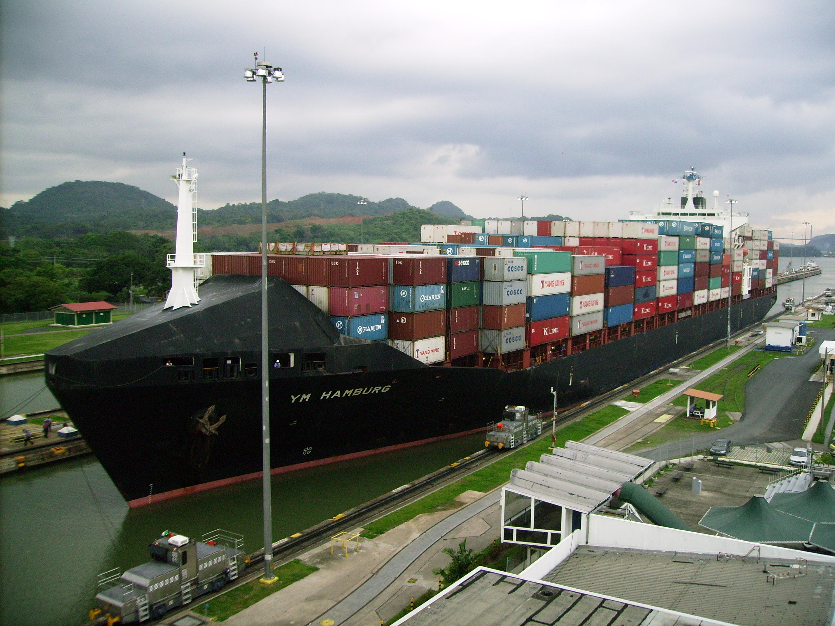 A british ship passing through the Panama Canal at the Miraflores Locks Name:YM Hamburg IMO Number: 9157648 MMSI Number: 235757000 Callsign: MBZR3 Length: 259 m Beam: 32 m